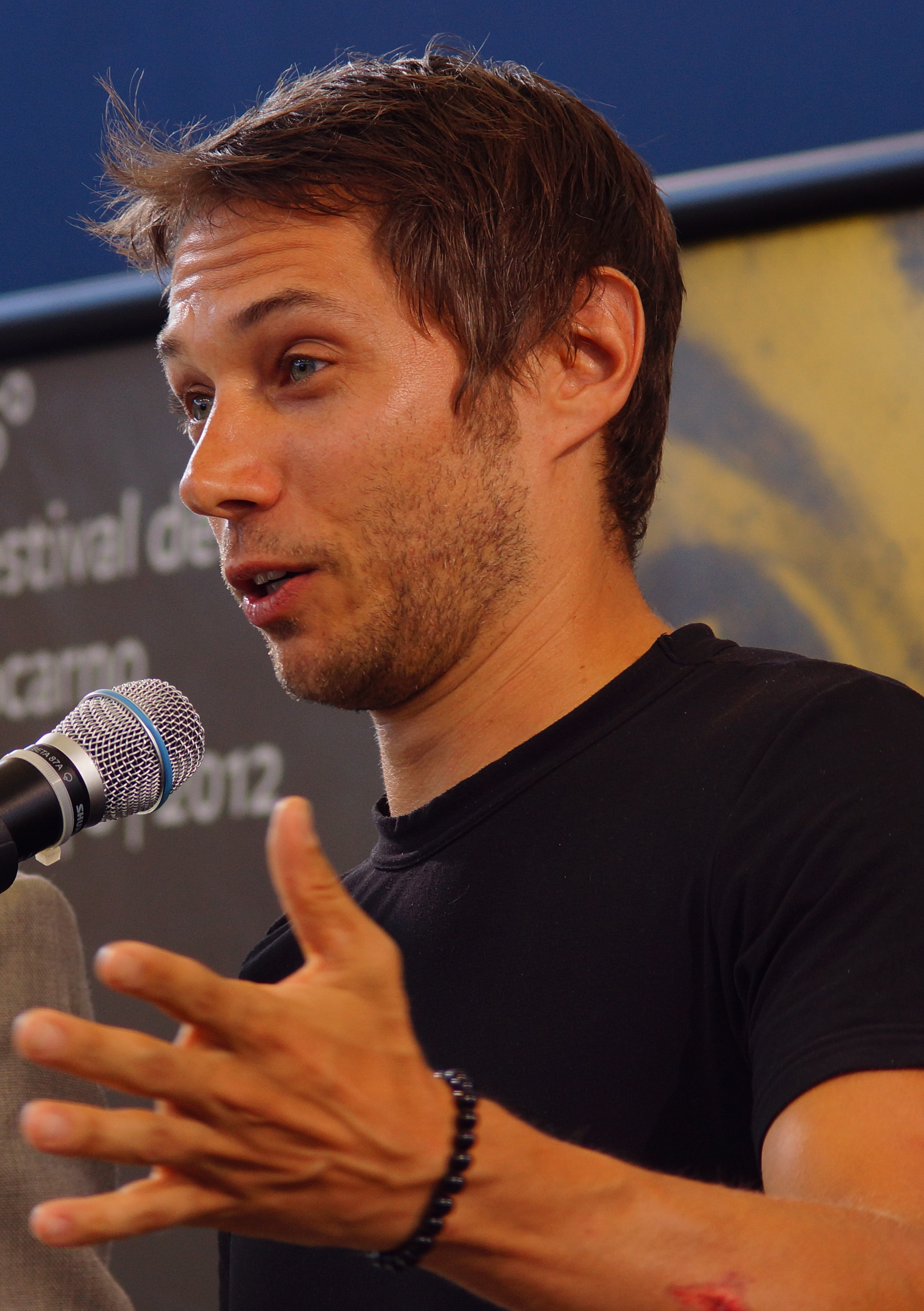 Director Sean Baker getting the first prize of the Junior Jury for Starlet at Locarno Film Festival 2012